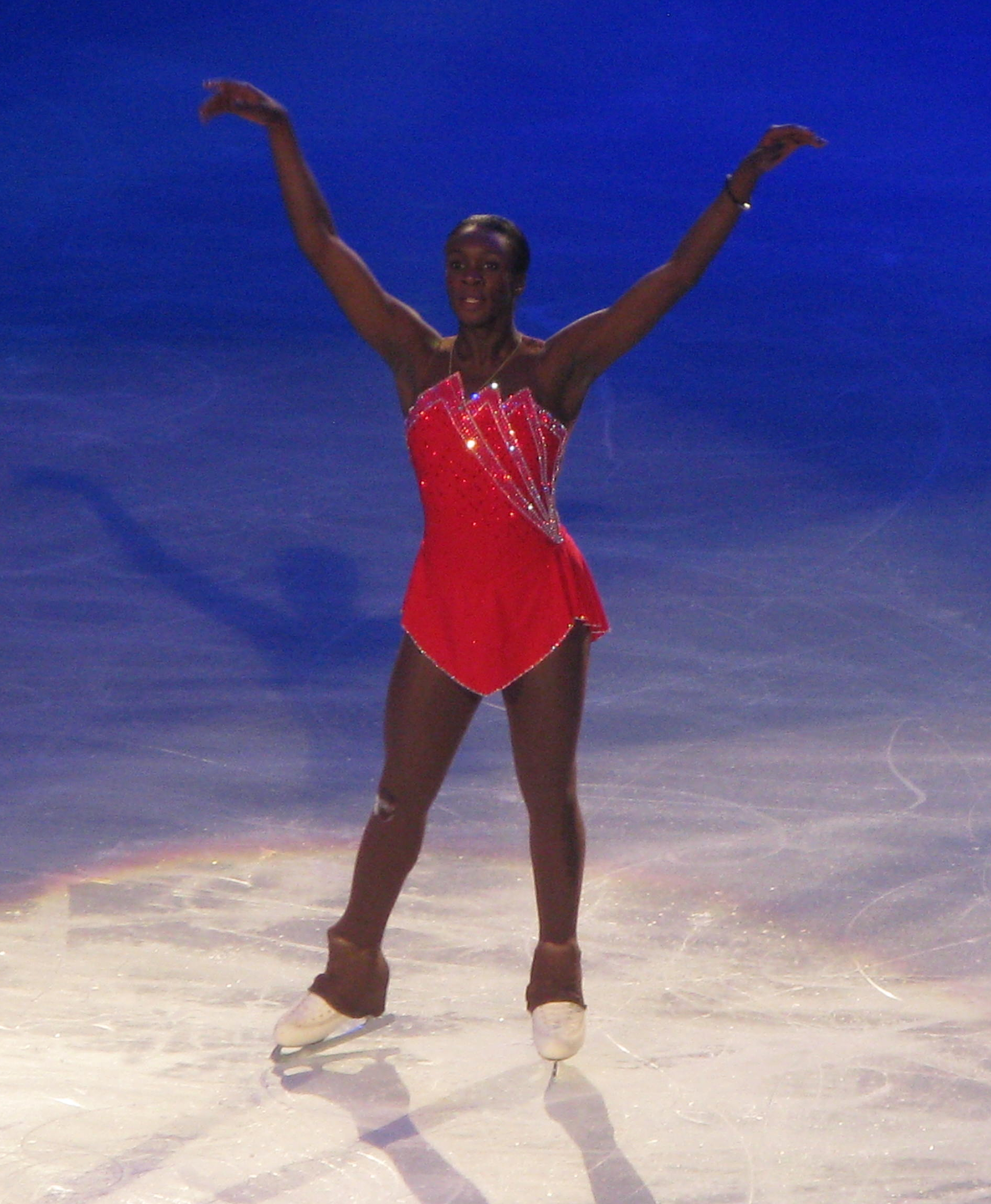 Skater Maé-Bérénice Méité at the figure skating gala exhibition of 2013 Trophée Éric Bompard in Bercy, Paris.